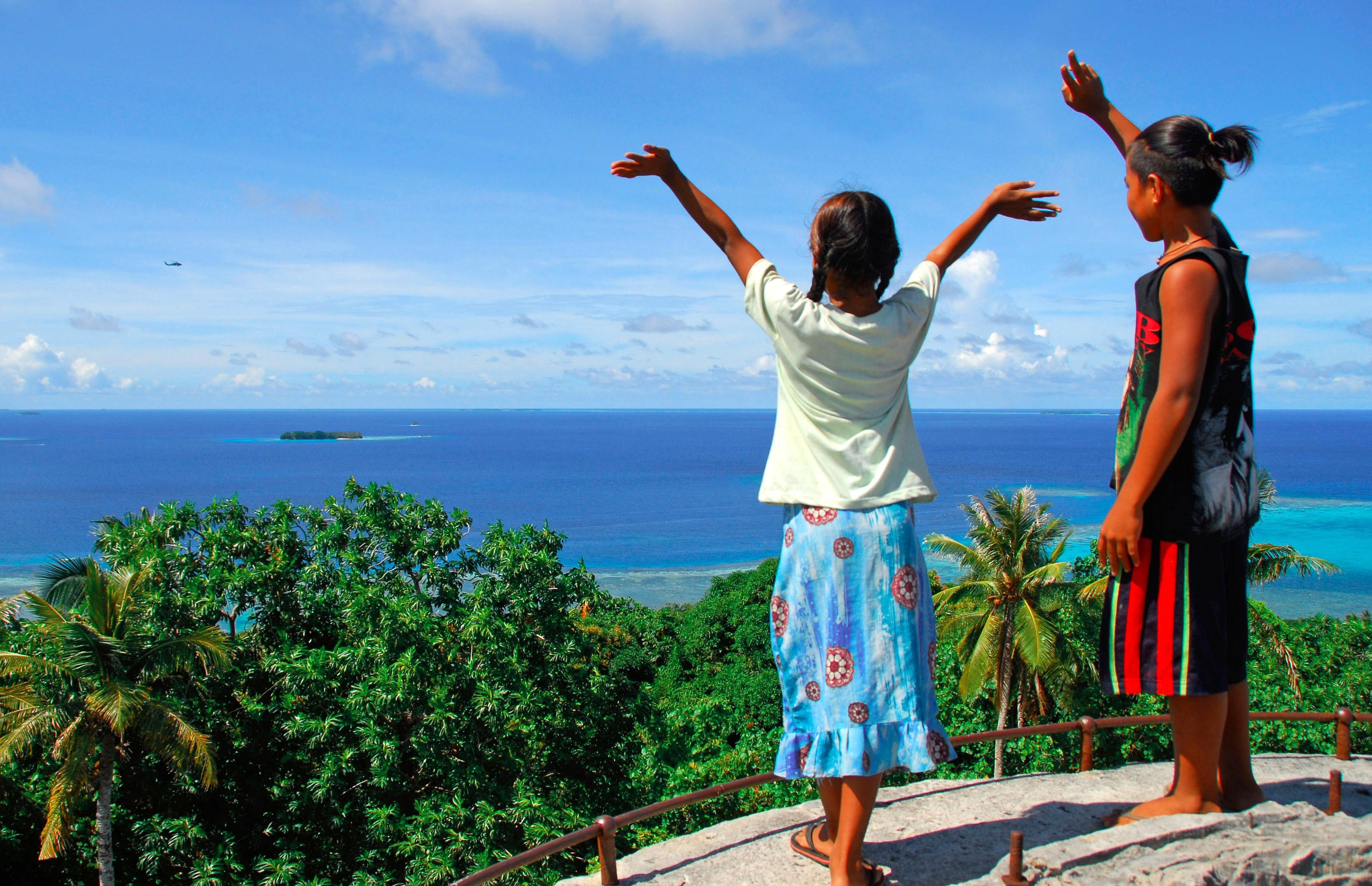 CHUUK, Federated States of Micronesia, (Aug. 26, 2008) Children from Weno Island, in Chuuk Lagoon, wave at a passing MH-60S Sea Hawk helicotper from the Military Sealift Command hospital ship USNS Mercy (T-AH 19) from atop the ruins of a historic Japanese lighthouse, destroyed during the U.S. air raid "Operation Hailstone" in 1944. Mercy will operate in the Federated States of Micronesia (FSM) to perform humanitarian civic assistance missions in an effort to build the relationship between FSM and the United States. Pacific Partnership is a four-month humanitarian mission to Southeast Asia intended to build collaborative relationships by providing engineering, civic, medical and dental assistance to the region. (U.S. Navy photo by Mass Communication Specialist 3rd Class Joshua Valcarcel/Released)